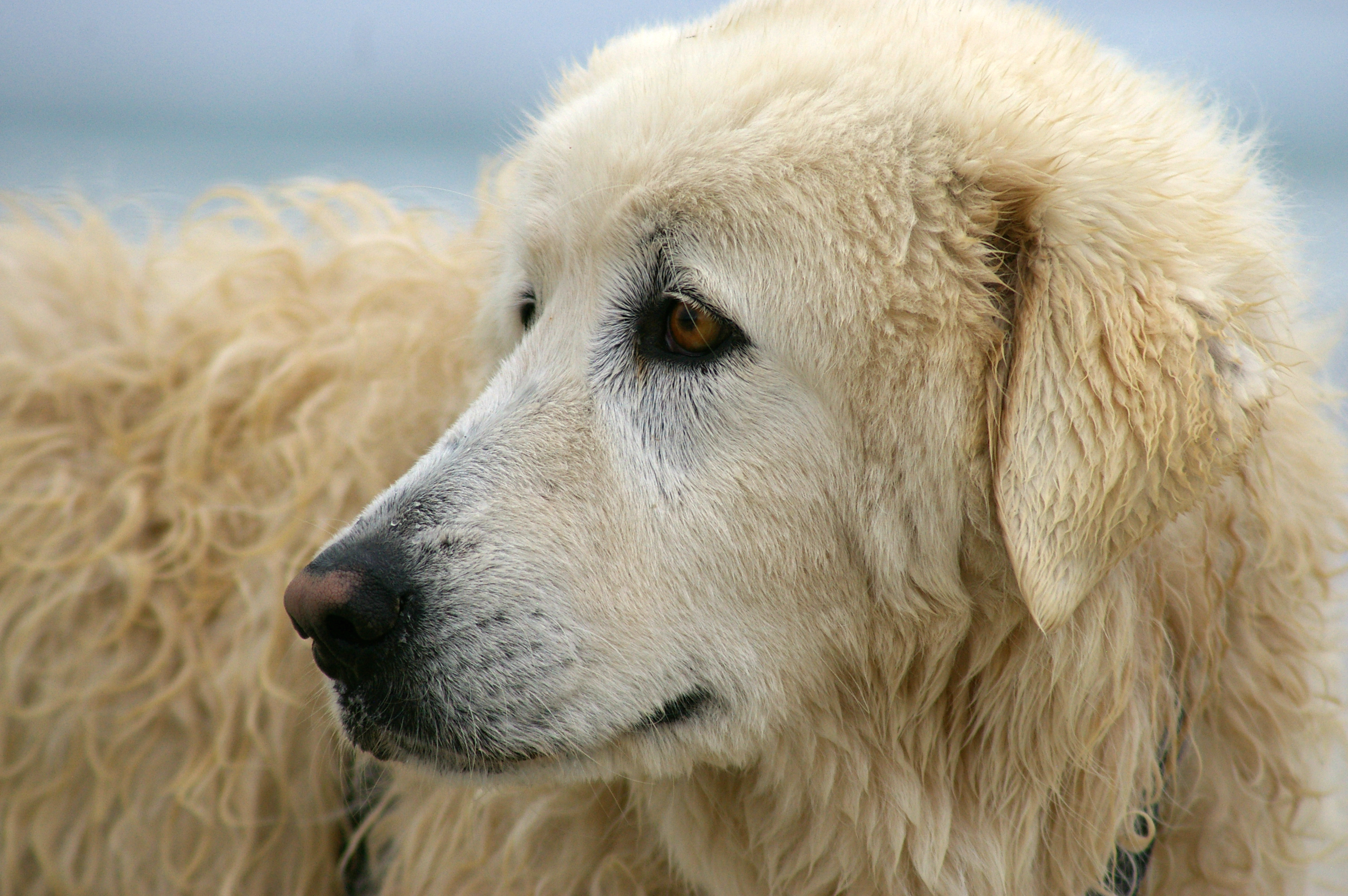 This is Tula, a Middle Island maremma guardian dog.